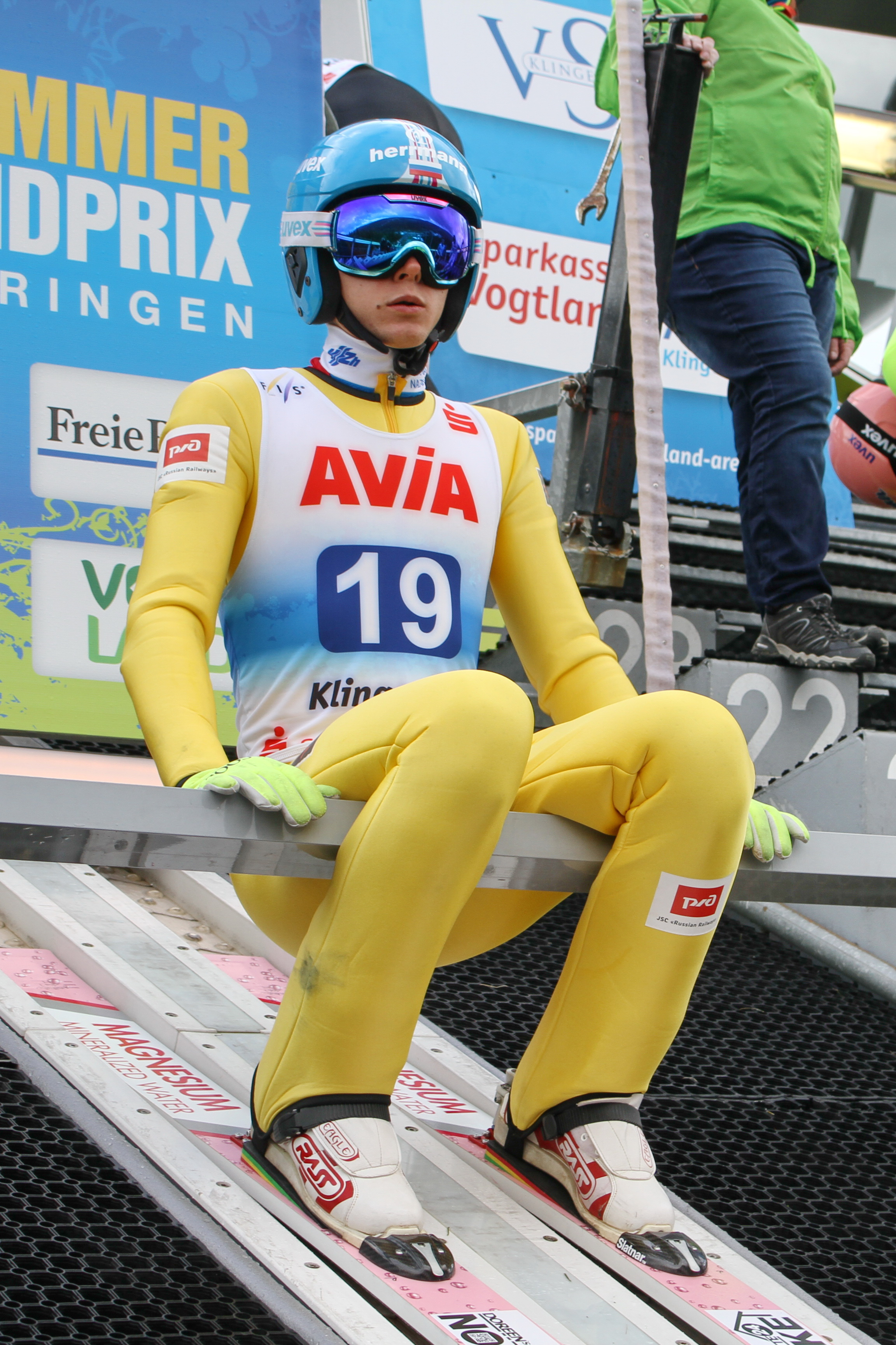 FIS Ski Jumping Summer Grand Prix Klingenthal 2017 on 2017-10-03 Mikhail Nazarov